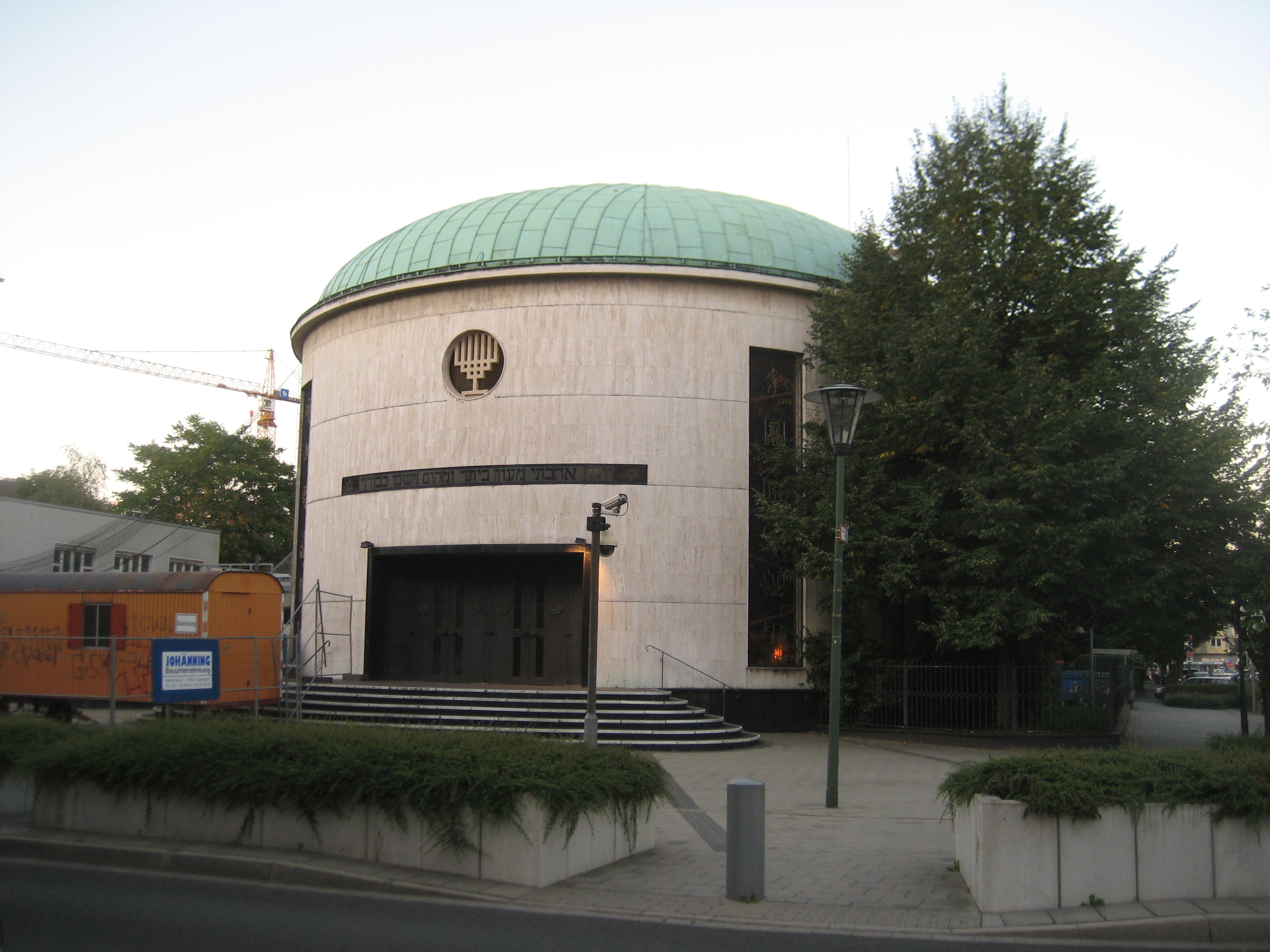 The New Synagogue in Düsseldorf, Germany. Also known as the Leo Baeck Saal